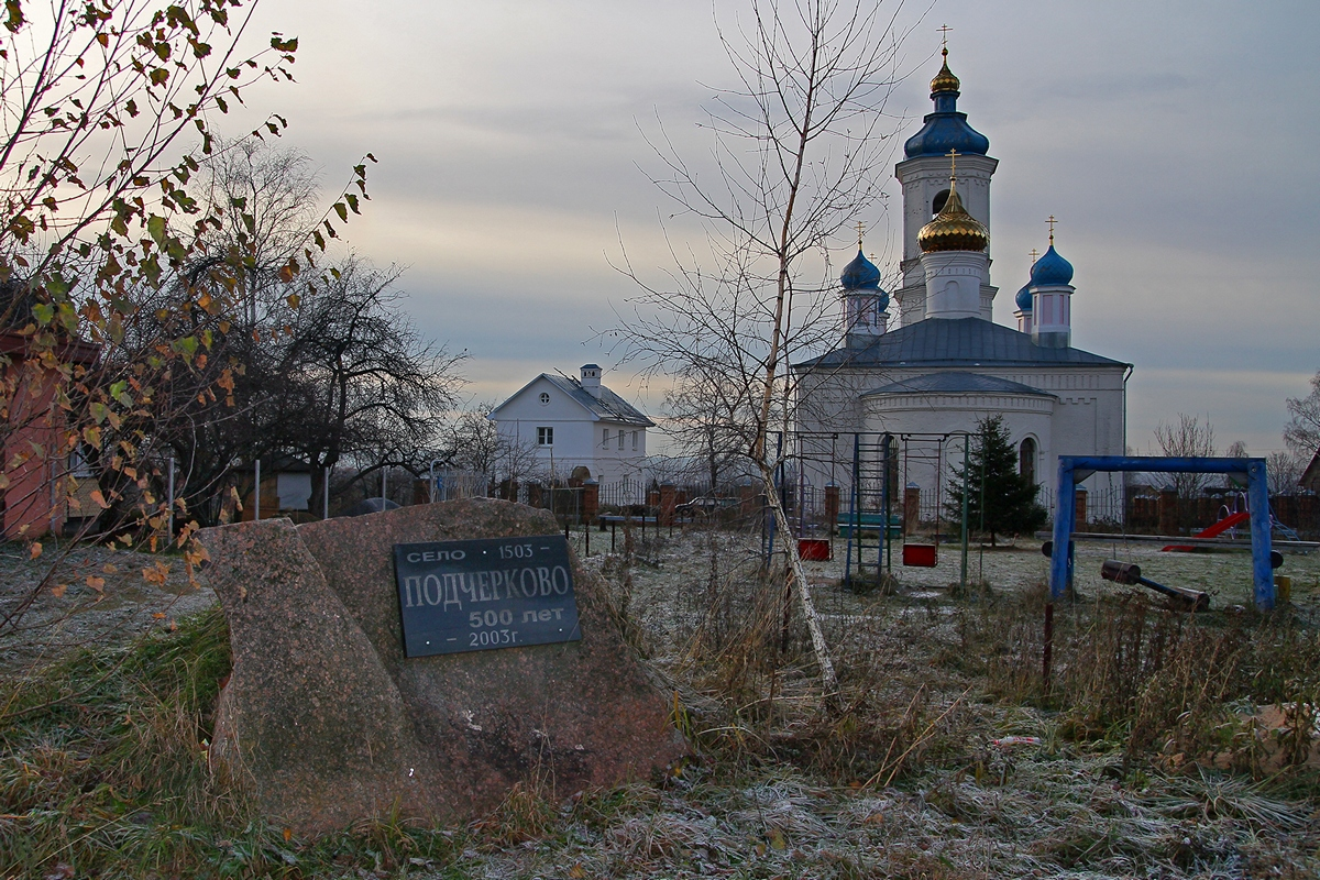 Village Krutzy, Dmitrovsky district, Moscow region, church.